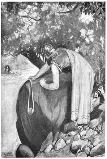 Forbay and Queen Maev